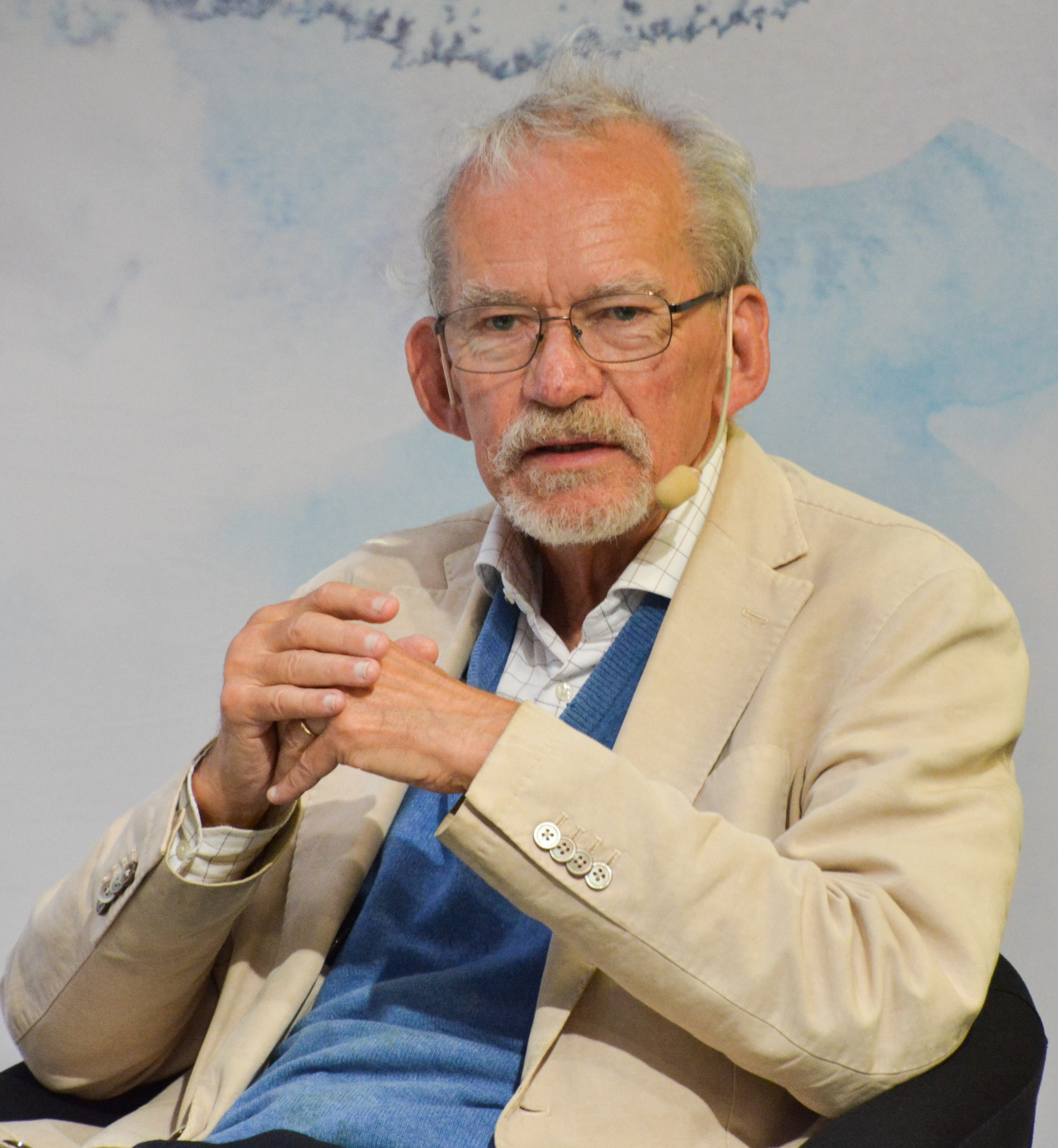 Sven-Erik Liedman